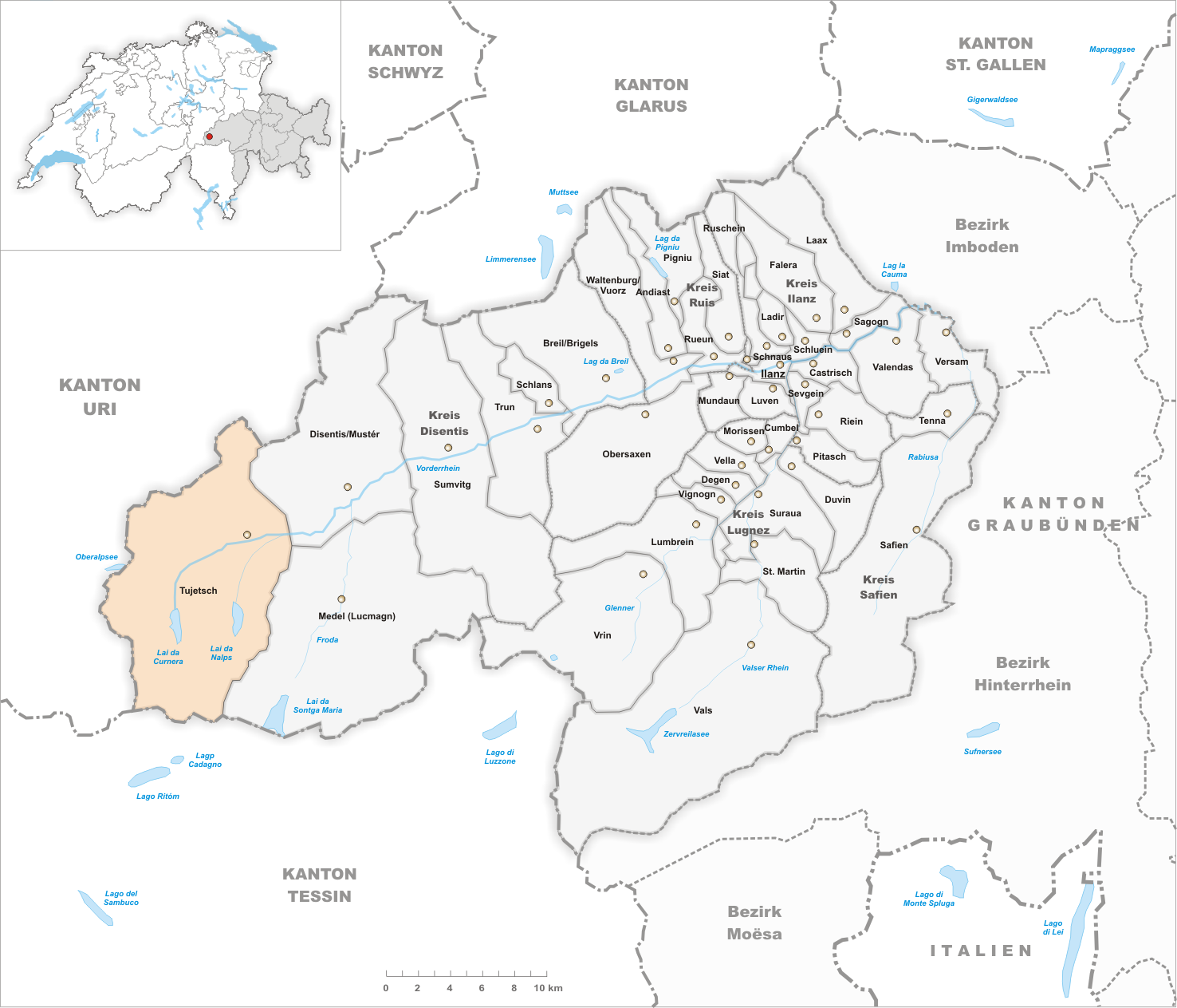 Municipality Tujetsch